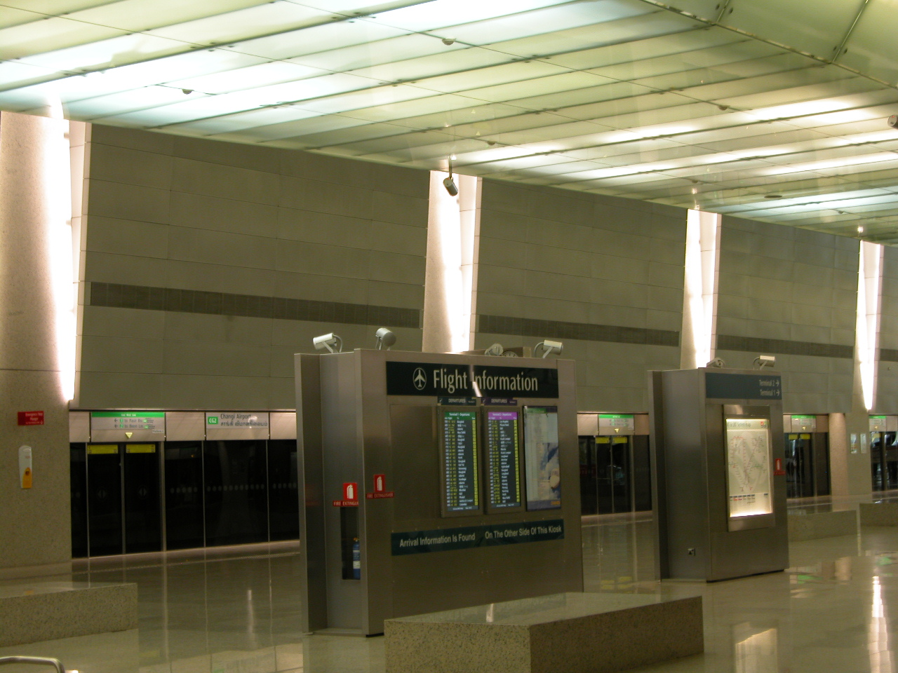 JY Yang. Personal photograph taken June 2005. Summary JY Yang. Personal photograph taken June 2005.